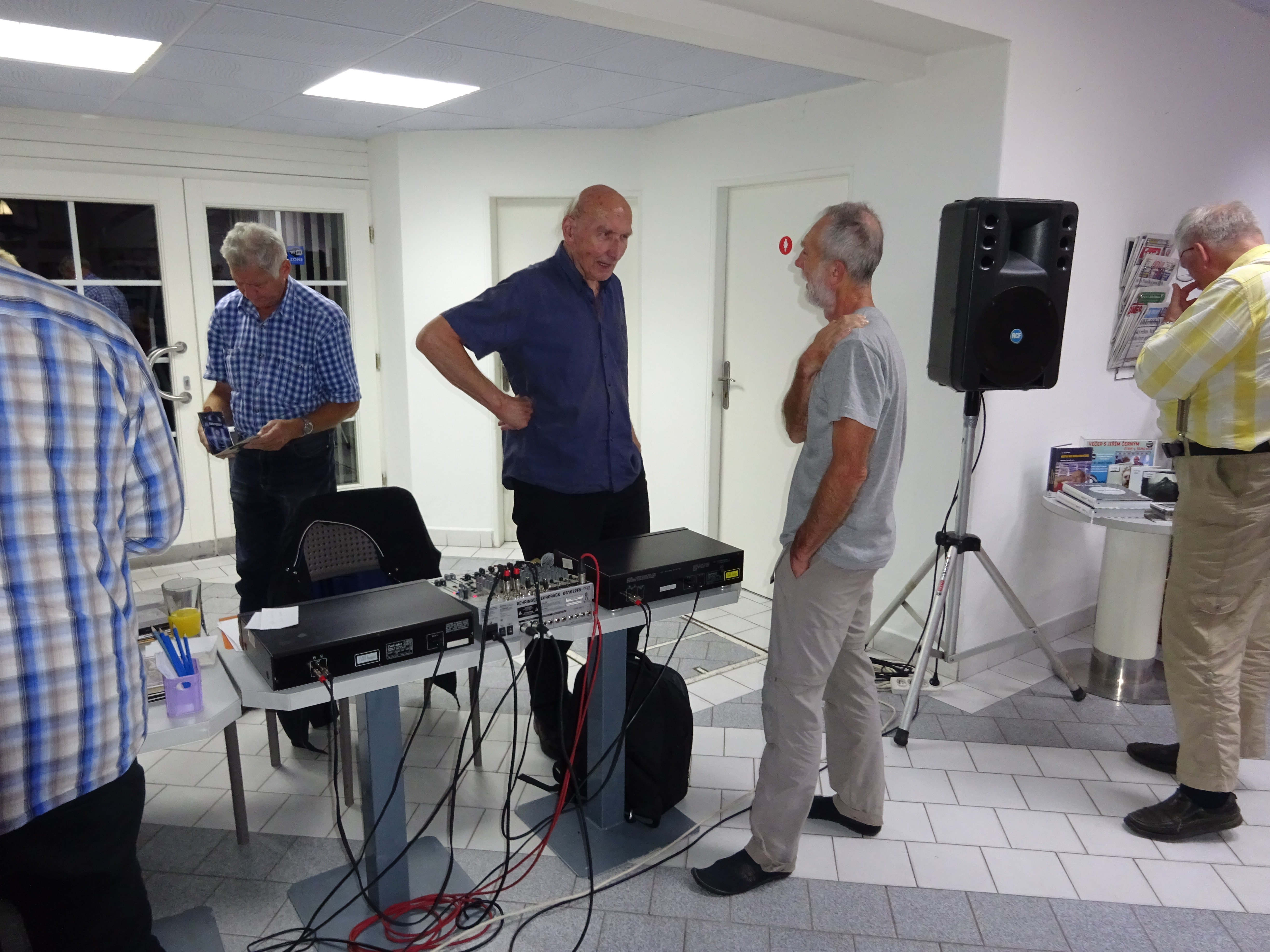 Jiří Černý (Czech music critic) - Ro(c)kování in the Municipal Library of Tábor - November 9, 2018